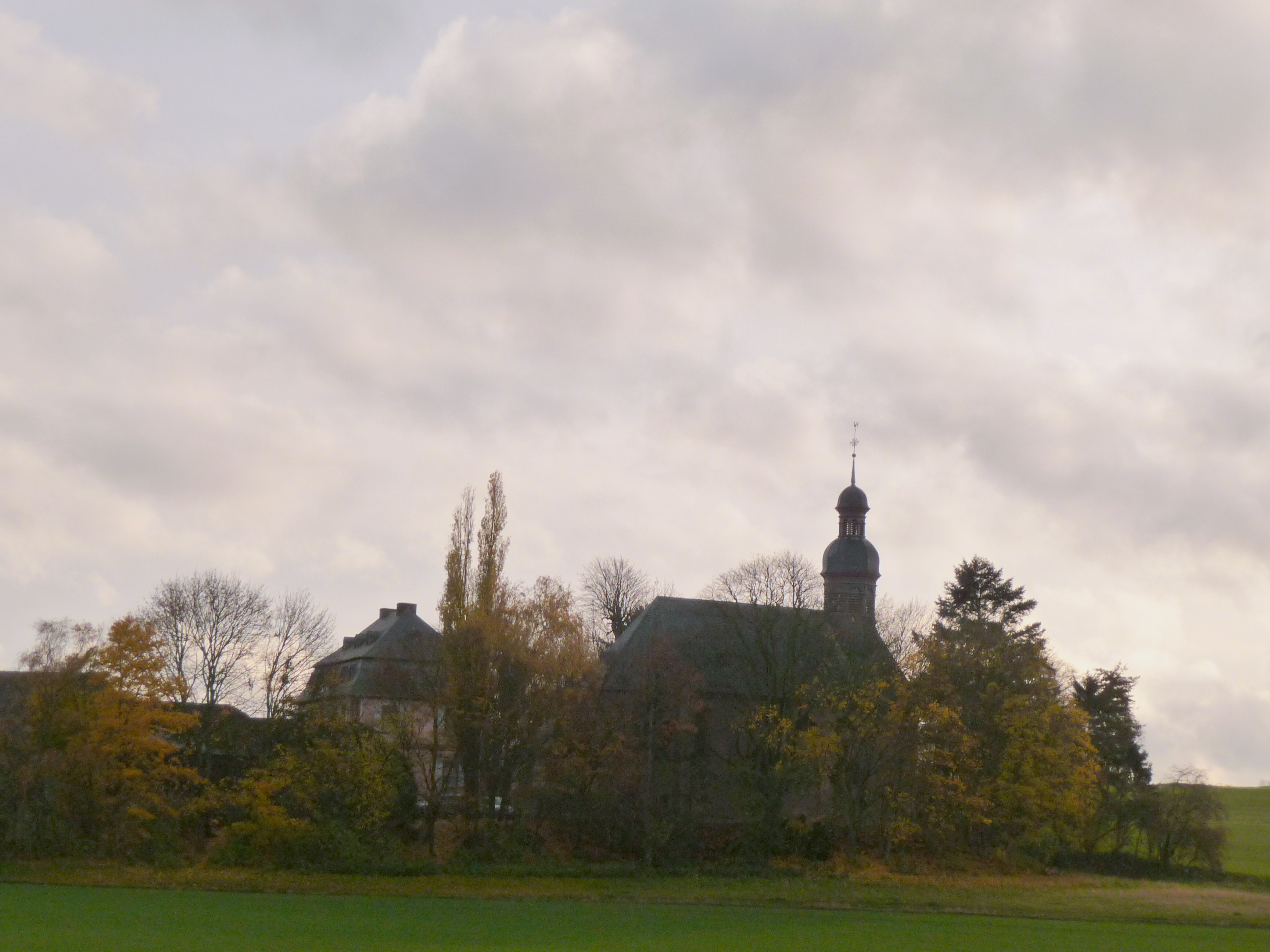 Thür in Germany